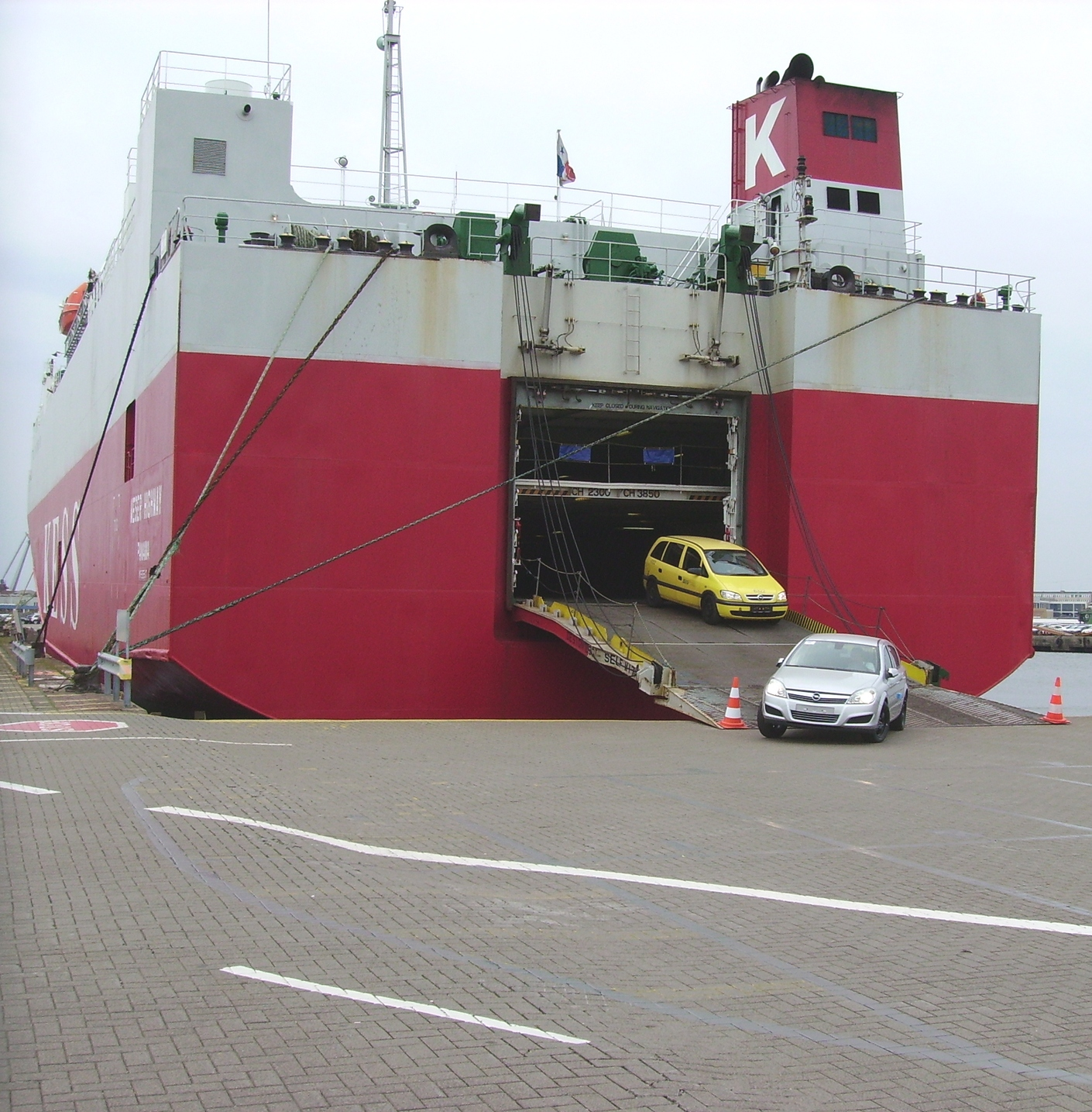 Handling of imported cars which leave the car-carrier "Weser Highway" by the built-in ramp. IMO Number: 9065417 MMSI Number: 355390000 Callsign: H9DD Length: 100 m Beam: 18 m